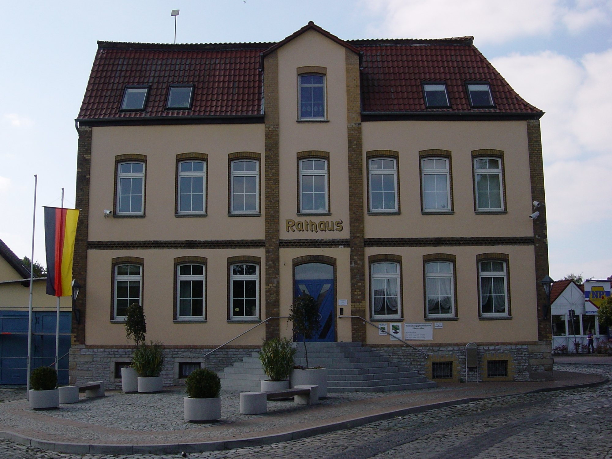 Town hall in Eilsleben, Germany